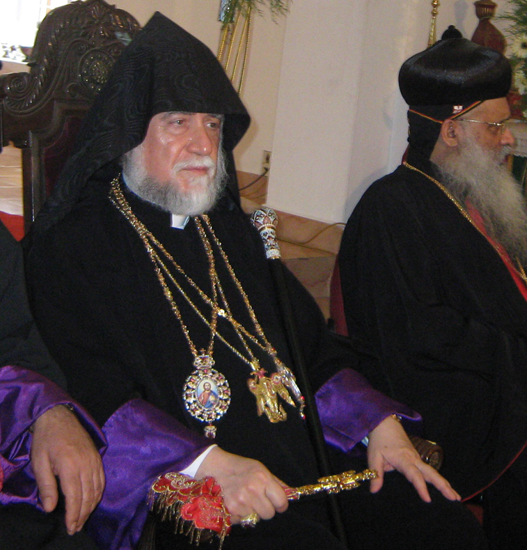 H. H. Aram I, Catholicos of Cilicia of the Armenian Apostolic Church